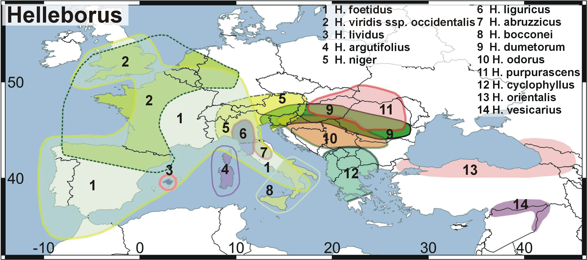 Distribution map of 14 species of the genus Helleborus in Europe and western Asia